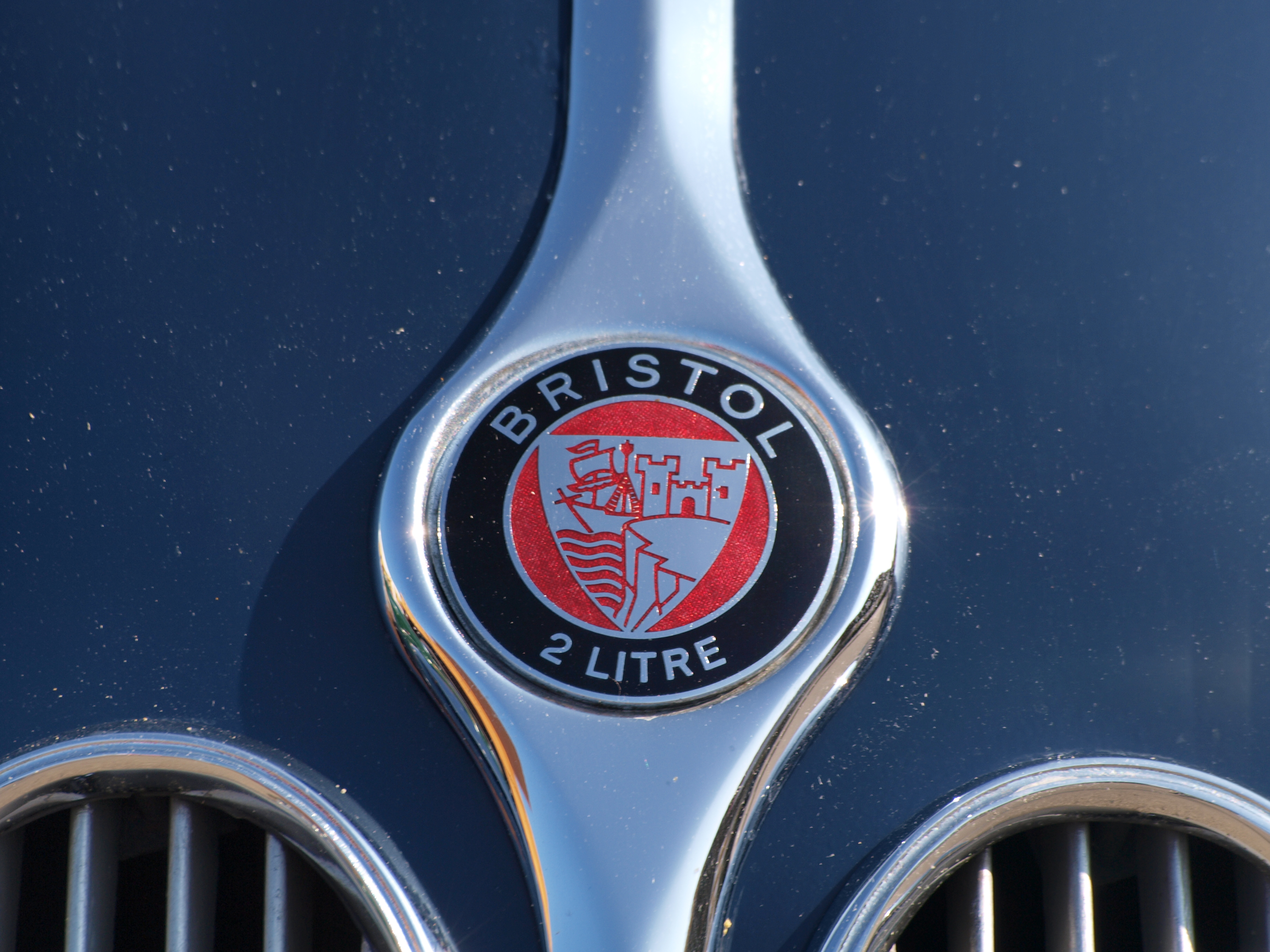 Photographed at the Nationaal Oldtimer Festival Zandvoort 2009, The Netherlands. OLYMPUS DIGITAL CAMERA